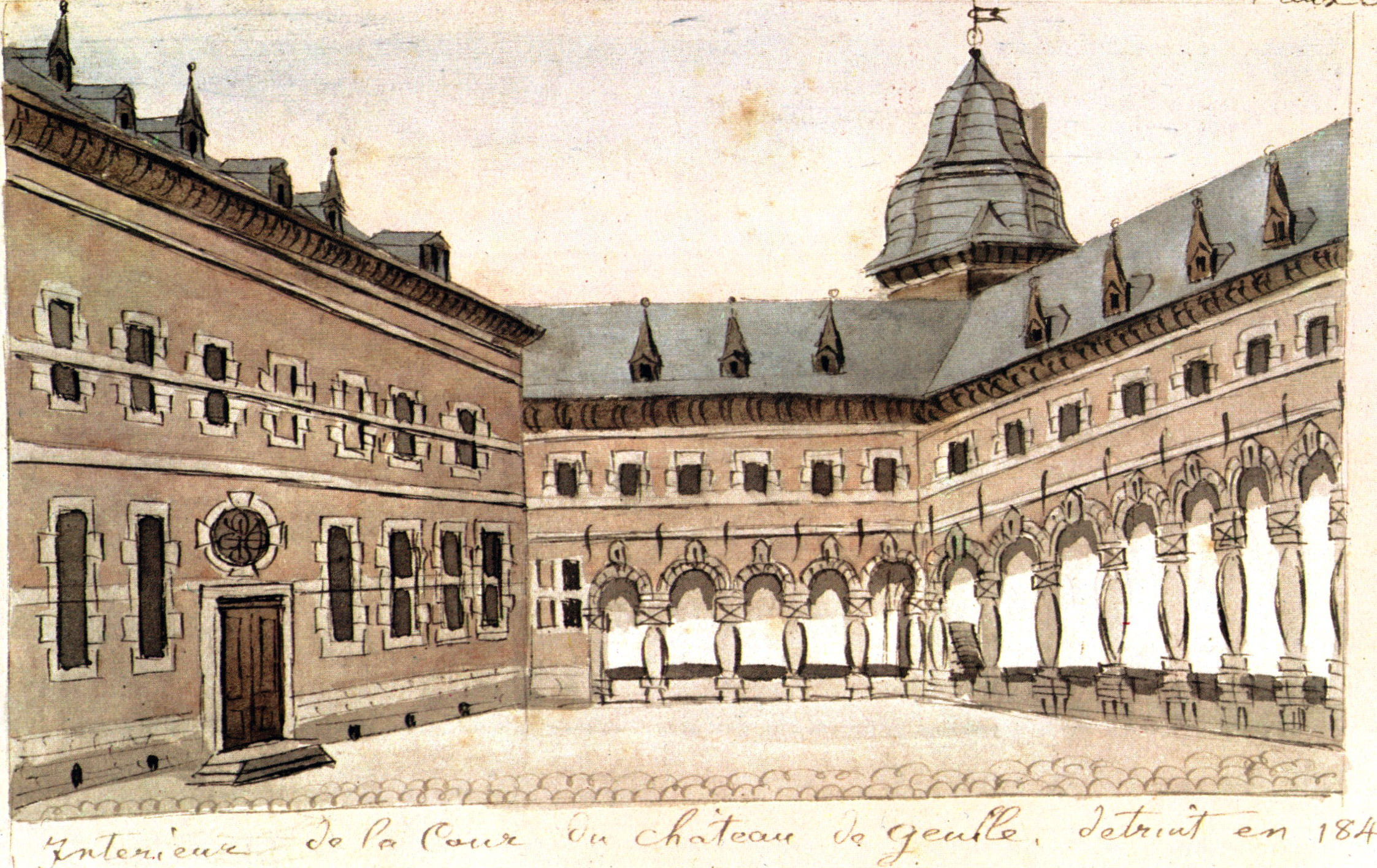 View of the inner court of Geulle Castle, Limburg, the Netherlands, largely destroyed in 1846. Drawing by Philippus van Gulpen (c 1840-60)